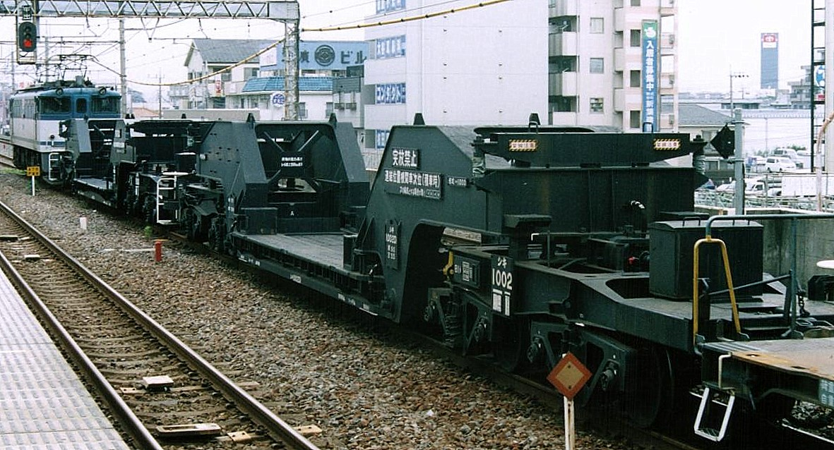 Train of wagons of JR freight Type Shiki 1000 wagon (1001･1002). (Japan,Tiba prefecture).